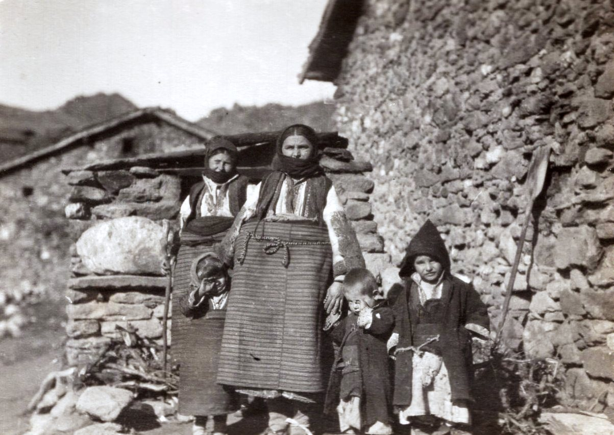 Family in folklore costumes from the village Skochivir, photographed around 1916 This media file is produced by Wikipedian in Residence in Category:Wikipedian in Residence at DARM in 2016.